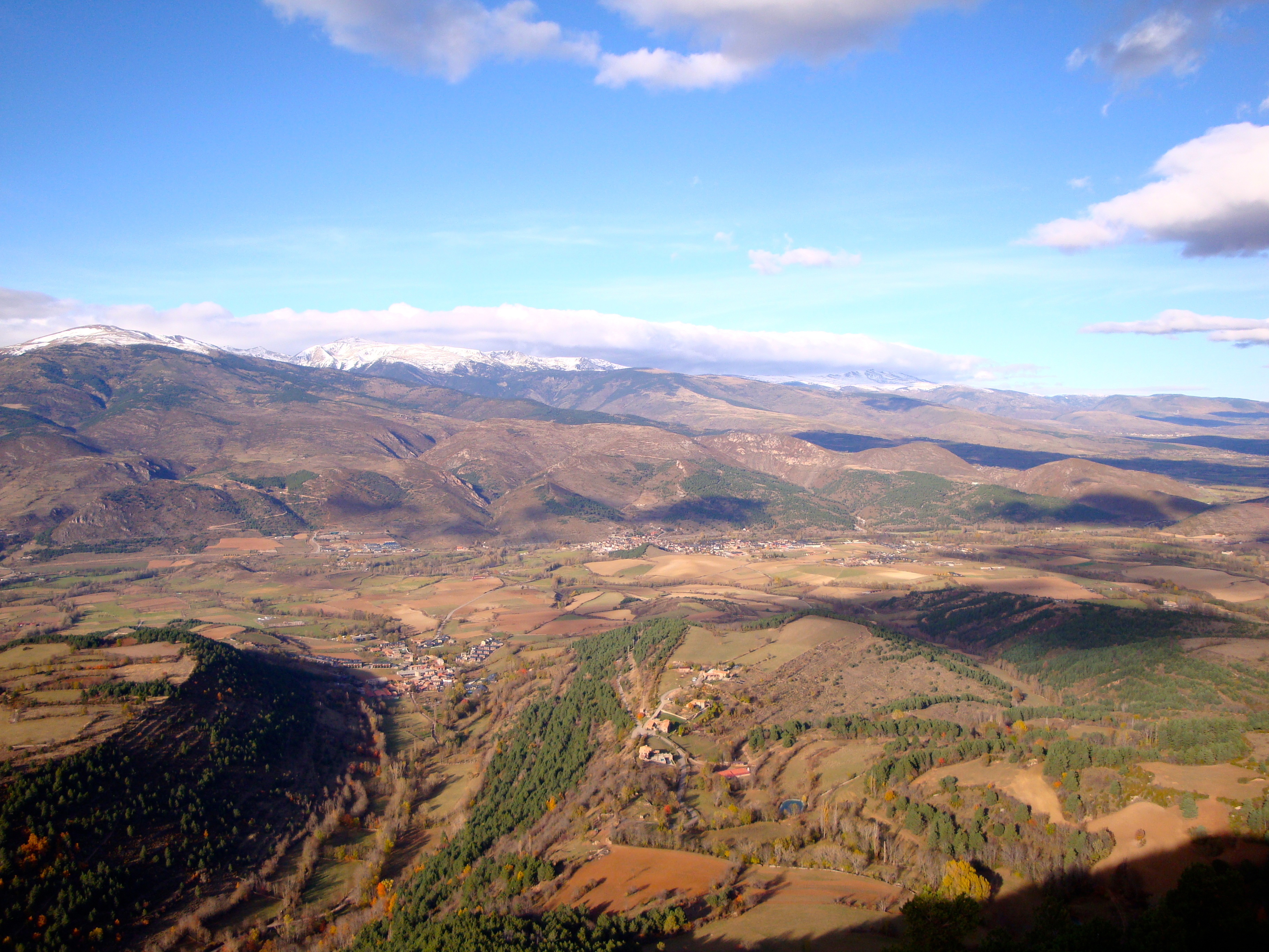 location of Nèfol